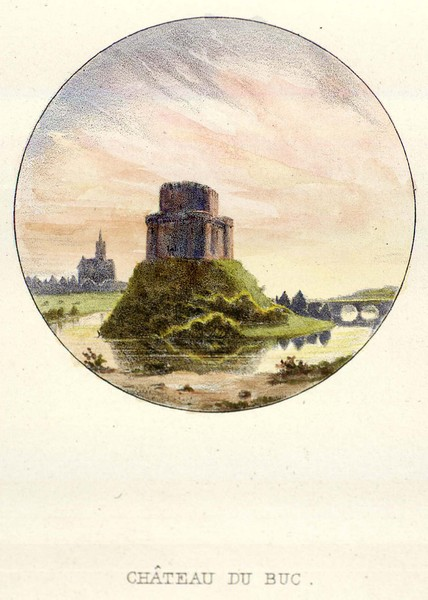 Château du Bucdate : circa 1830 [1830]dimensions : 7,7 x 7,7 cm.technique : lithographie